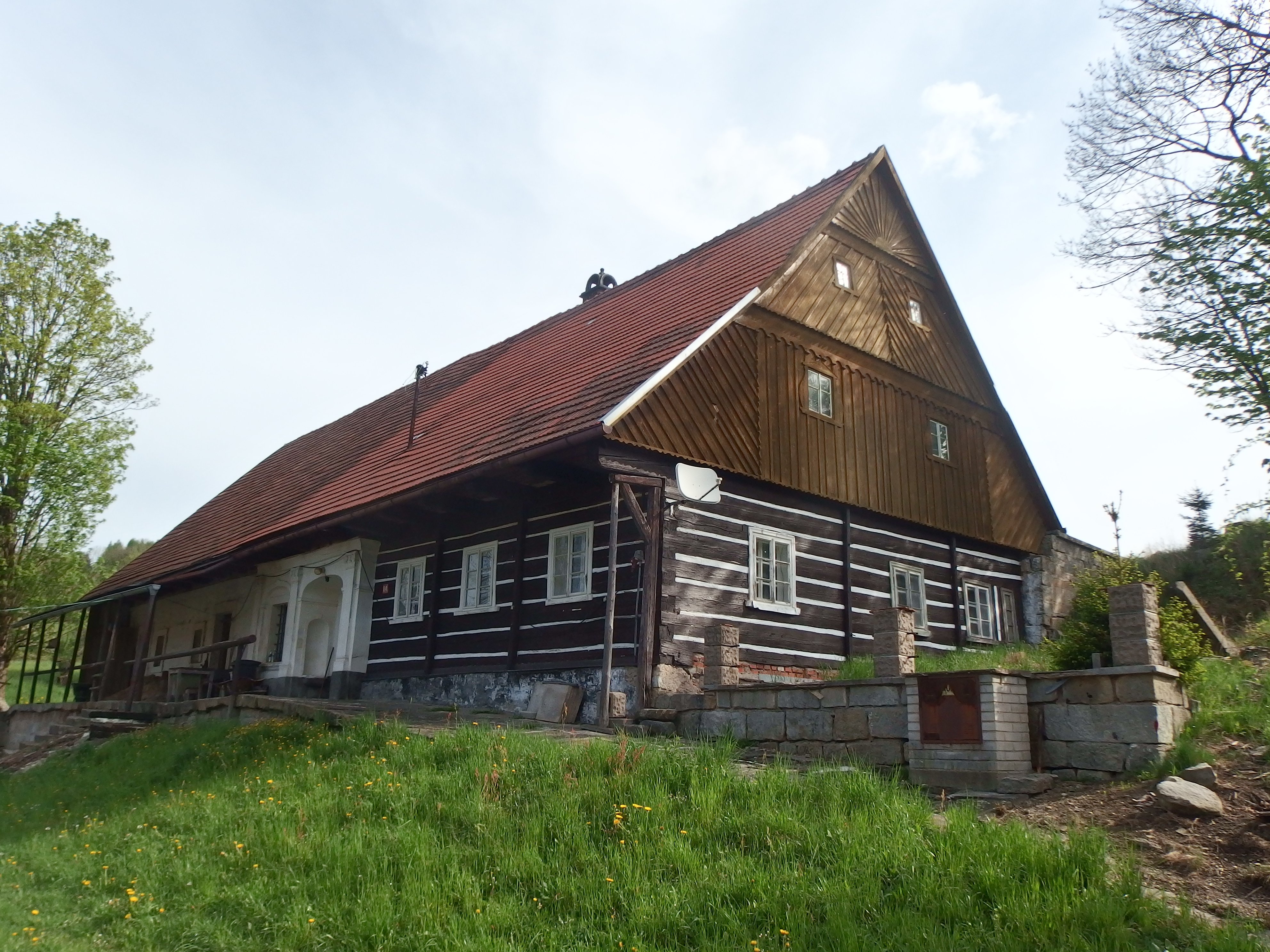 Machov, Náchod District, Czech Republic, part Machovská Lhota.